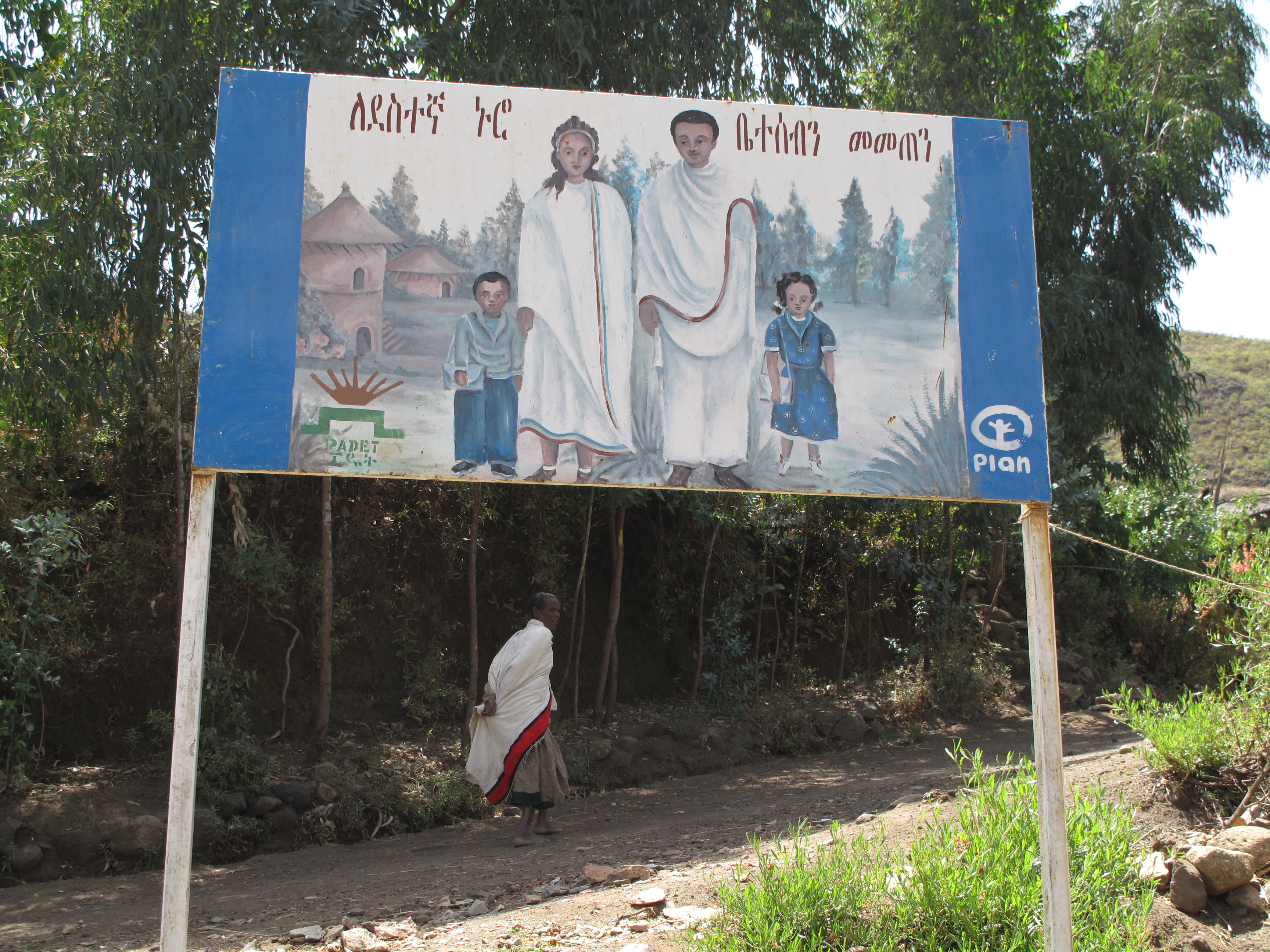 A family planning placard seen near Lalibela, Ethiopia. It shows the positive effects of having only 2 children. (Escape from poverty, health, a better housing, a fertile surrounding with trees, a better education)